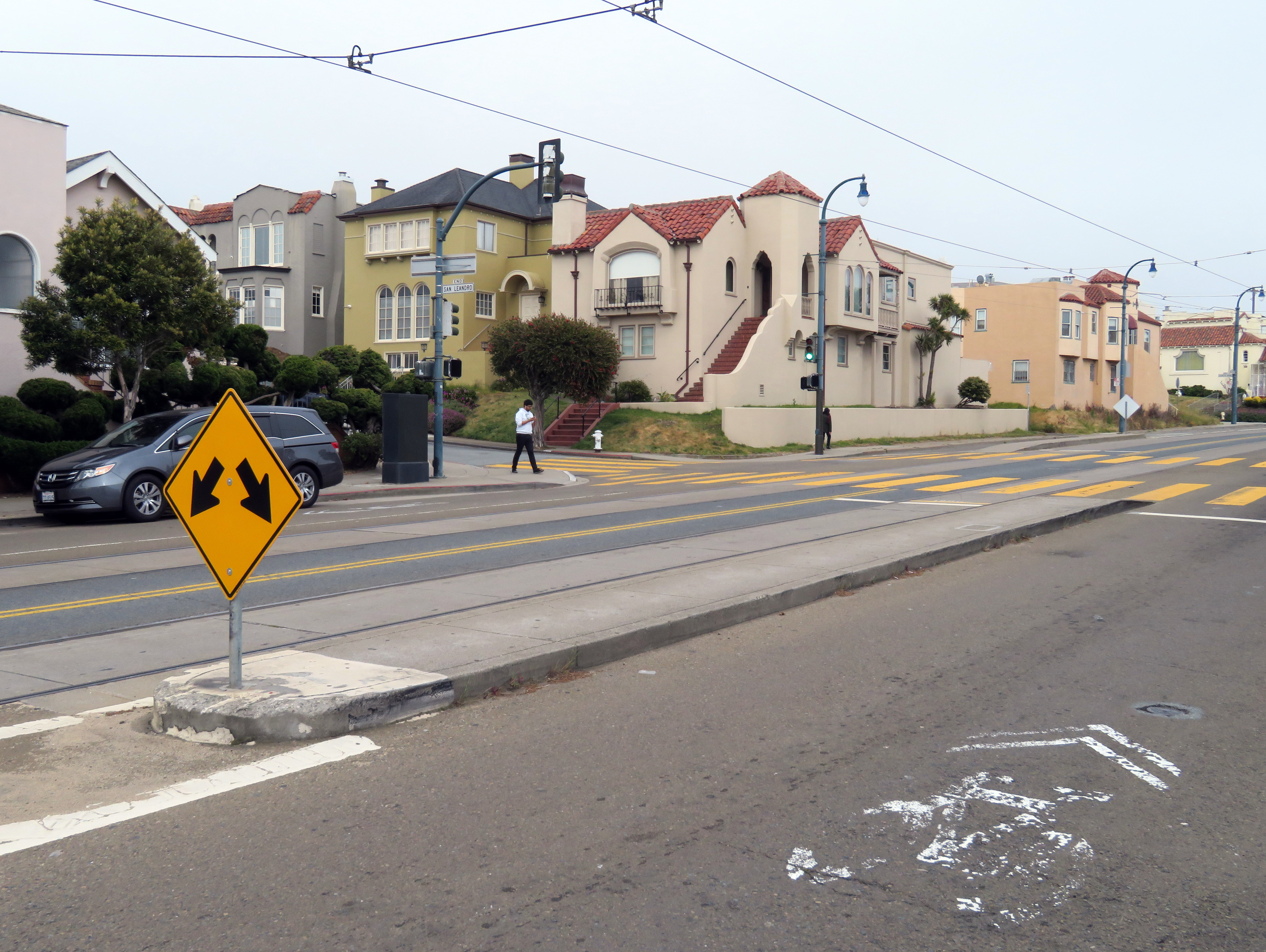 Outbound platform at Ocean and San Leandro in May 2018